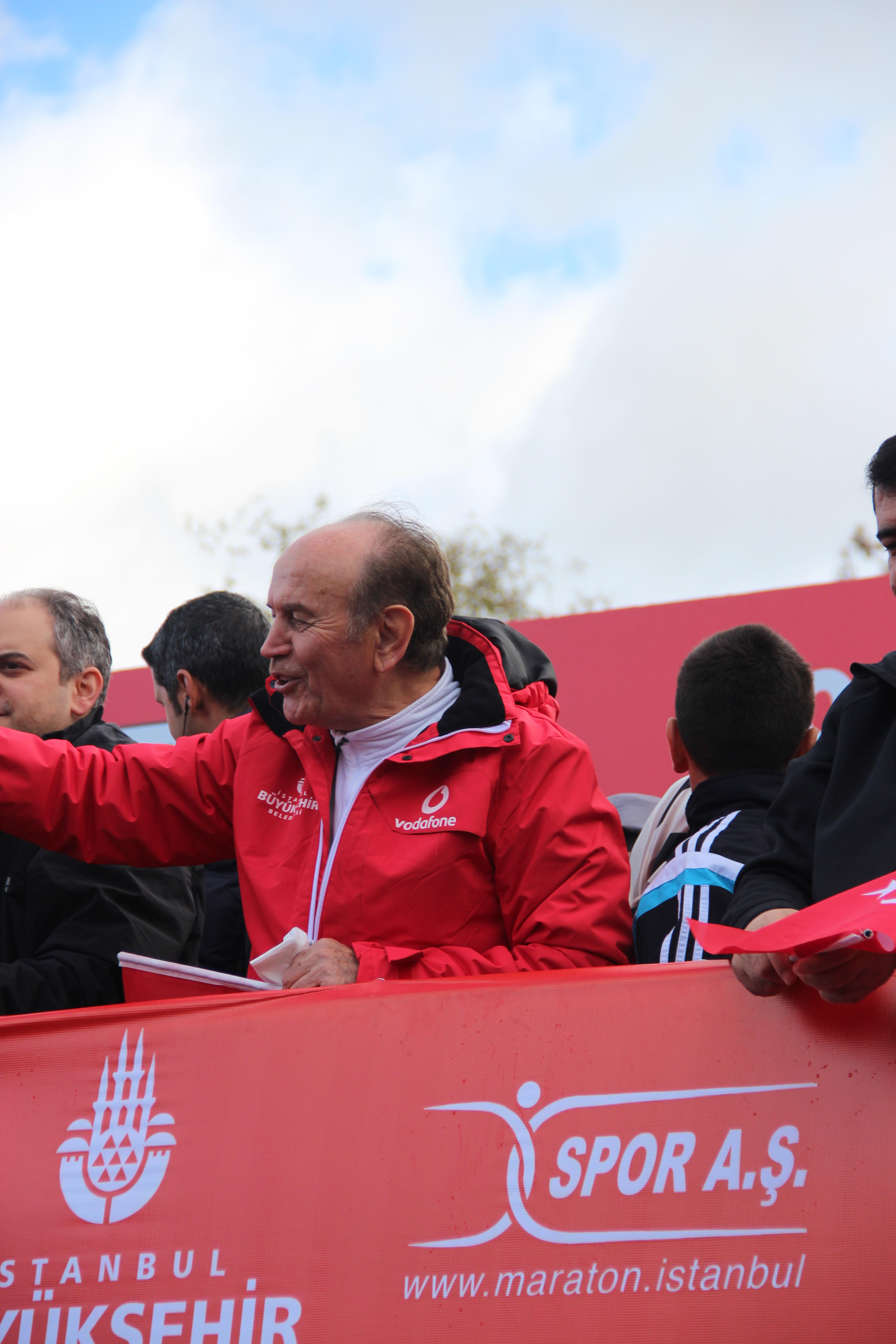 Kadir Topbas at 38th Istanbul Vodafone Marathon